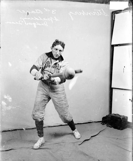 Indoor Baseball player (Spalding, F. Sternberg)